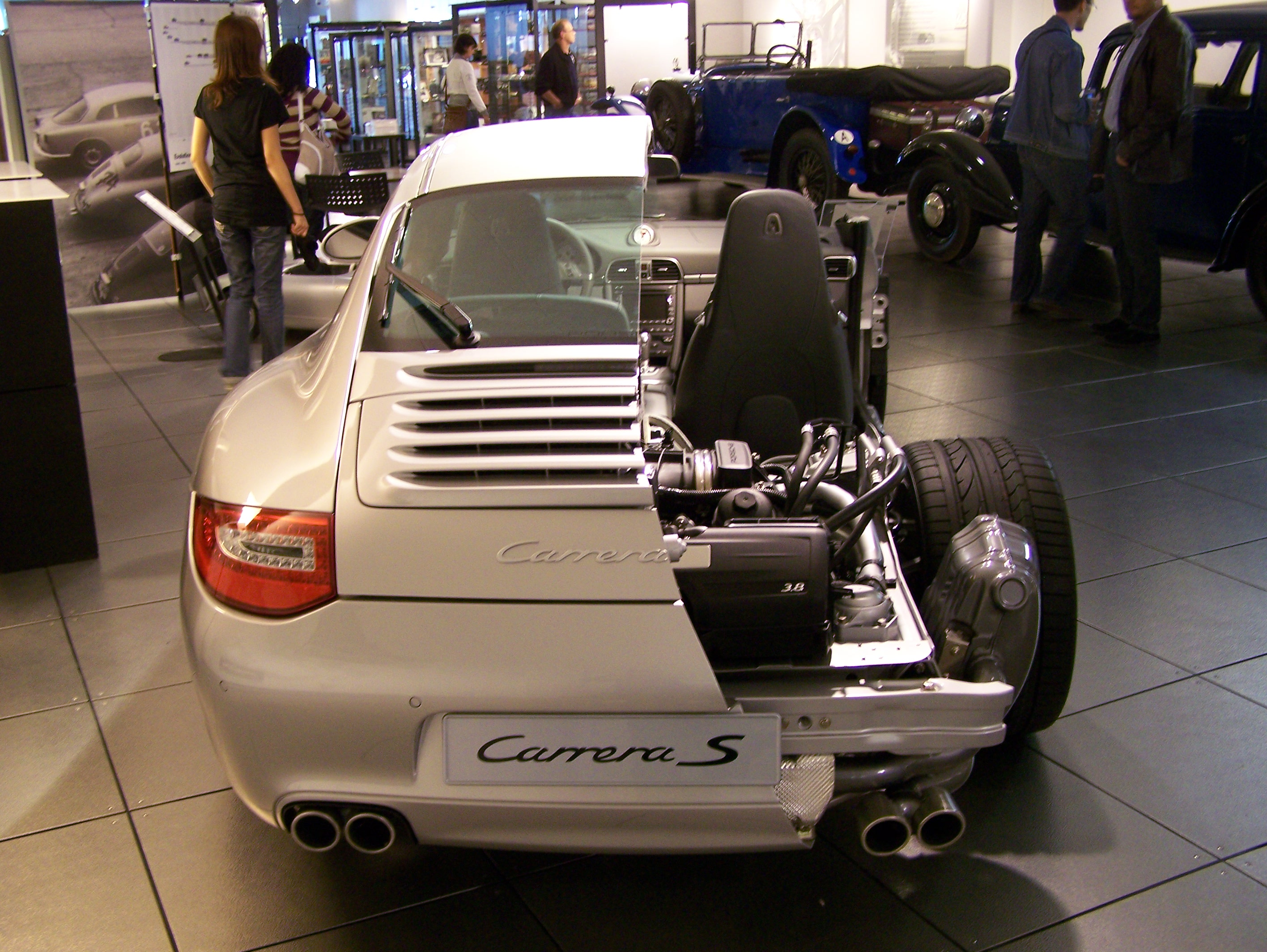 Porsche Museum Native namePorsche-MuseumLocationStuttgartCoordinates48° 50′ 07″ N, 9° 09′ 06″ E Established1976 (old museum) 2009 (new museum)Web page control : Q328623 VIAF: 138511768 GND: 2087859-X SUDOC: 155641123 NKC: ko2015876799 institution QS:P195,Q328623 Cutaway photograph of a 2008 Porsche 997 Carrera S coupé.Porsche Durchschnitt